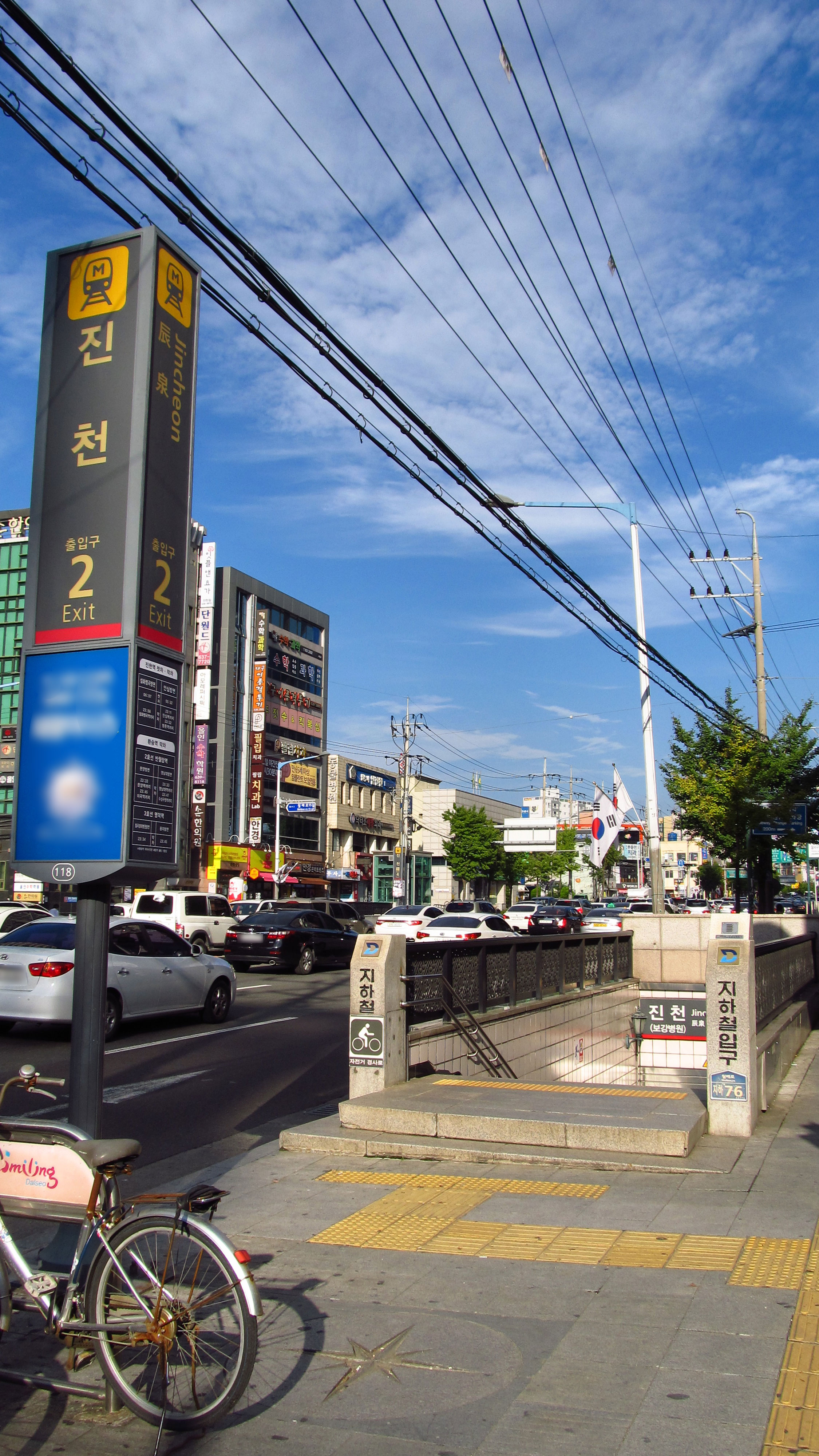 The entrance no.2 of Jincheon Station on the Daegu Metro Line 1